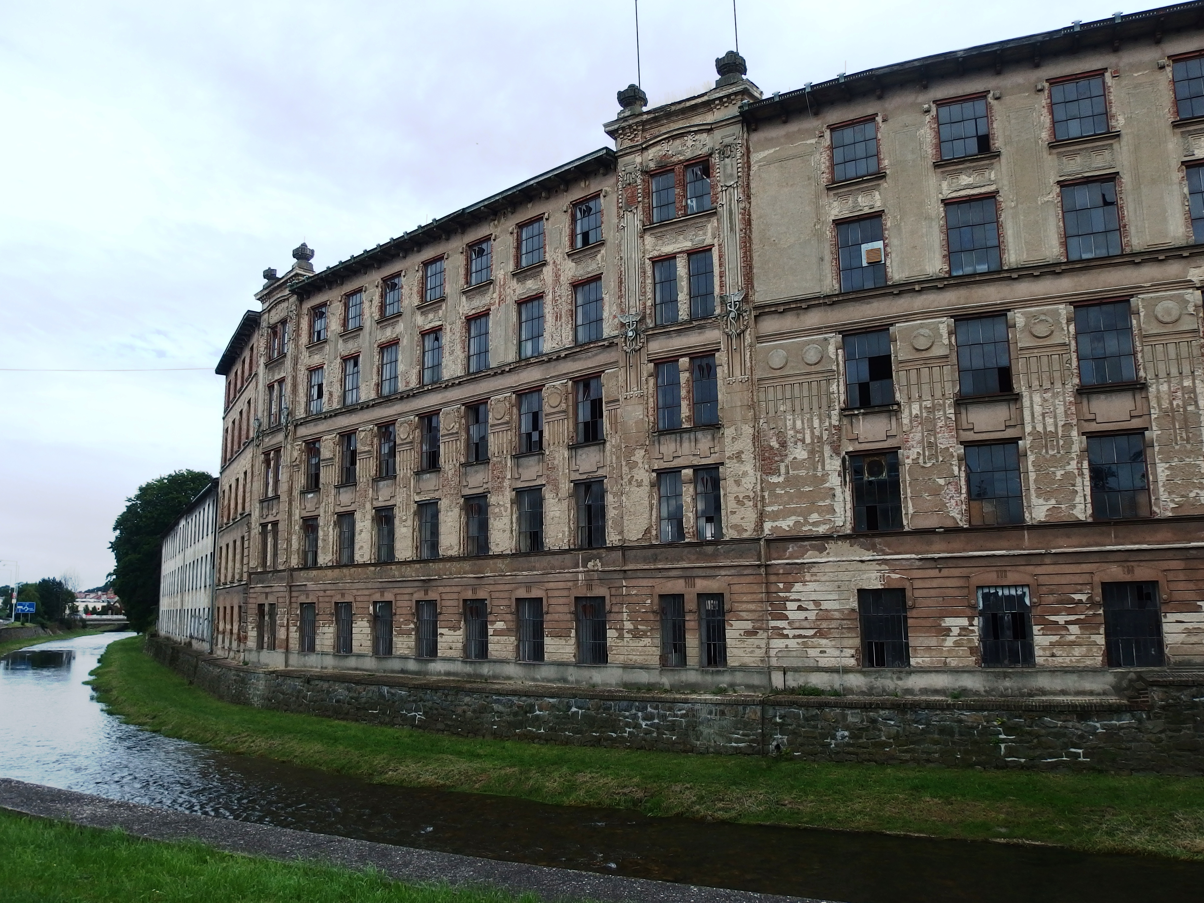 Krnov, Bruntál District, Czech Republic, part Pod Cvilínem.